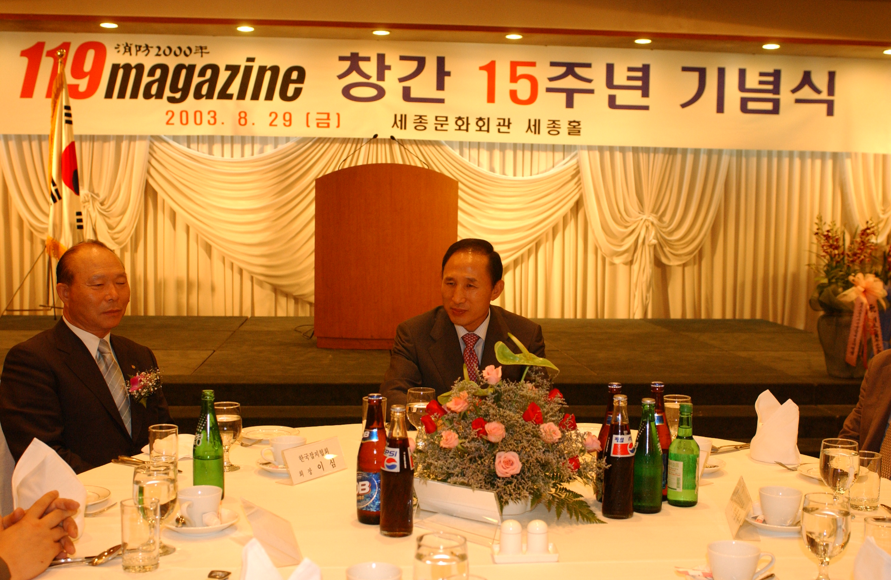 서울특별시 소방재난본부 소장 사진. photos of Seoul Metropolitan Fire&Disaster Headquarters. 이 파일은 크리에이티브 커먼즈 저작자표시-동일조건변경허락 4.0 국제 라이선스로 배포됩니다. 단 누구인지 구별 가능한 특정 인물이 사진에 포함되어 있을 경우 사용 전에 서울특별시 소방재난본부 및 해당 인물의 승인을 받으셔야합니다. 감사합니다.